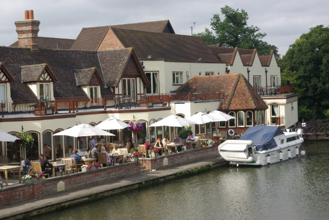 The Swan, Streatley Popular hotel in an idyllic riverside location.